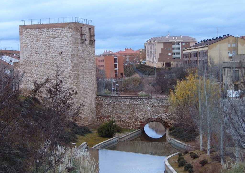 El Alamín's Tower and Infantas' Bridge, in Guadalajara, Spain.